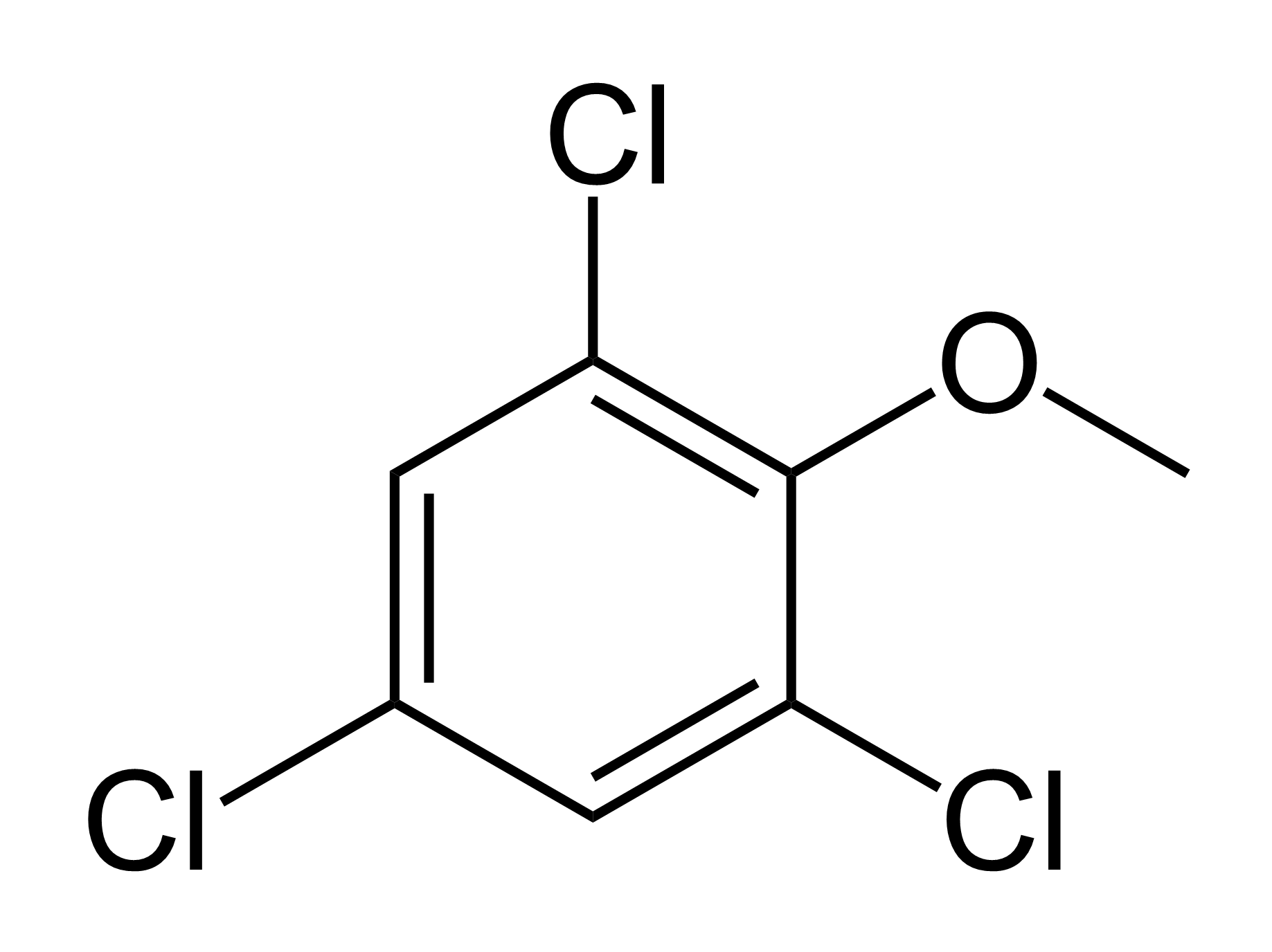 Chemical structure of 2,4,6-trichloroanisole